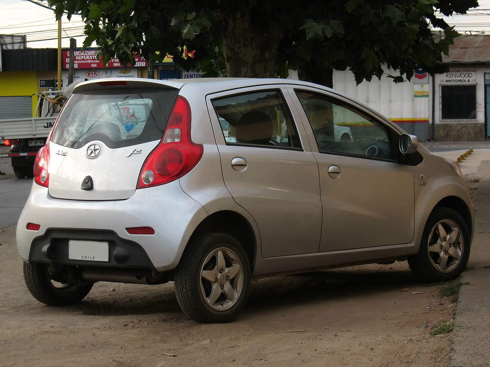 JAC J2 1.0 CE 2013